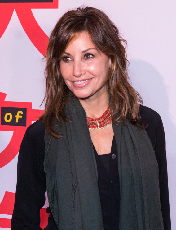 Gina Gershon at the screening of Wes Anderson's 'Isle of Dogs' at the Metropolitan Museum of Art in New York on March 20, 2018. Companion book 'The Wes Anderson Collection: Isle of Dogs' from Abrams arrives this May.